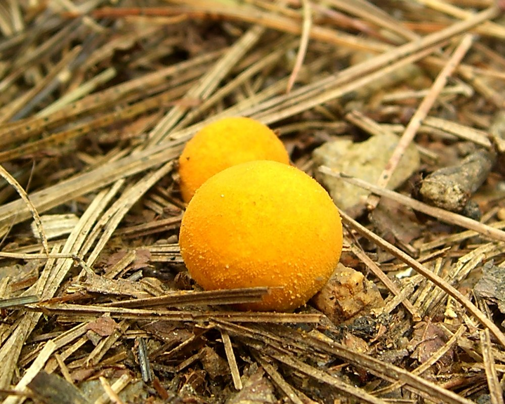 Scientific Name: Bovista colorata Common Name: Golden Puffball Certainty: positive (notes) Location: Southern Appalachians; Smokies; CabinCove Date: 2006-07-10